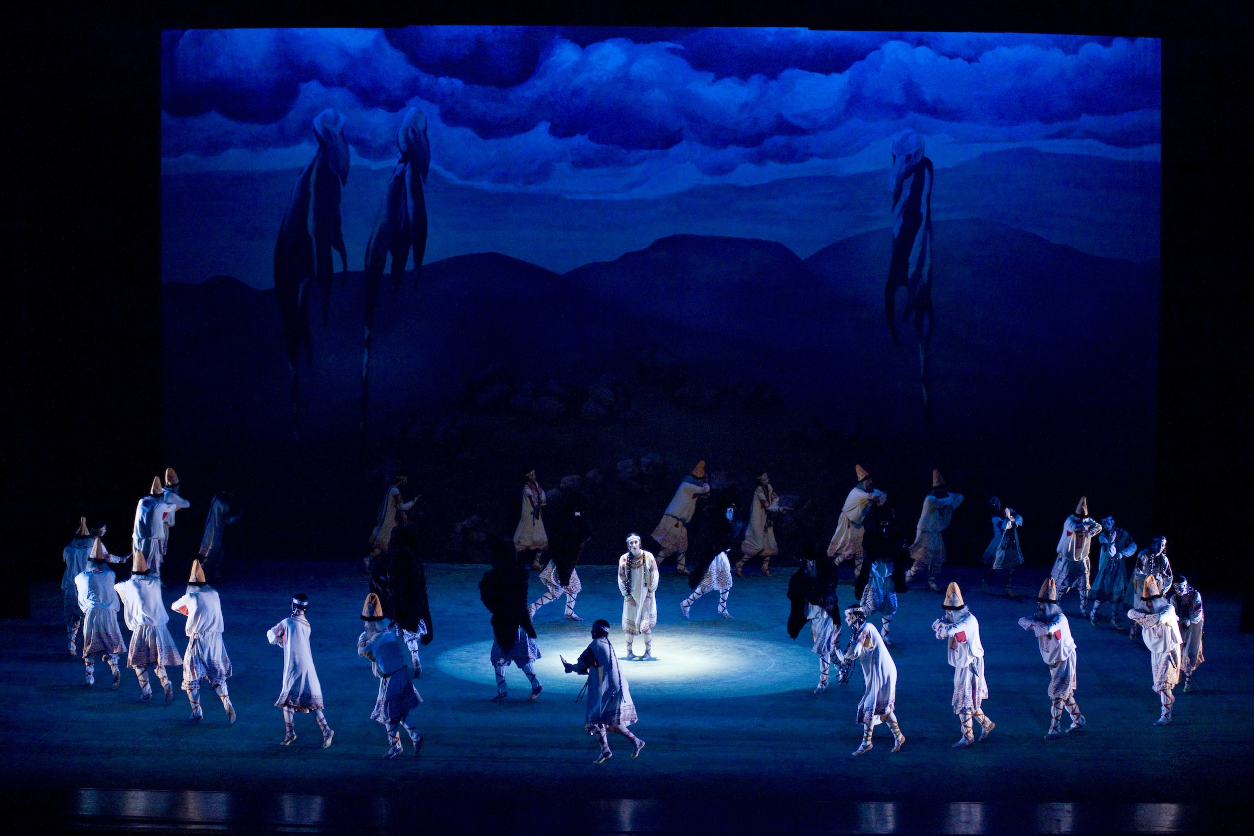 "Le Sacre du printemps" by Vaslav Nijinsky / Millicent Hodson, Polish National Ballet, soloist: Magdalena Ciechowicz